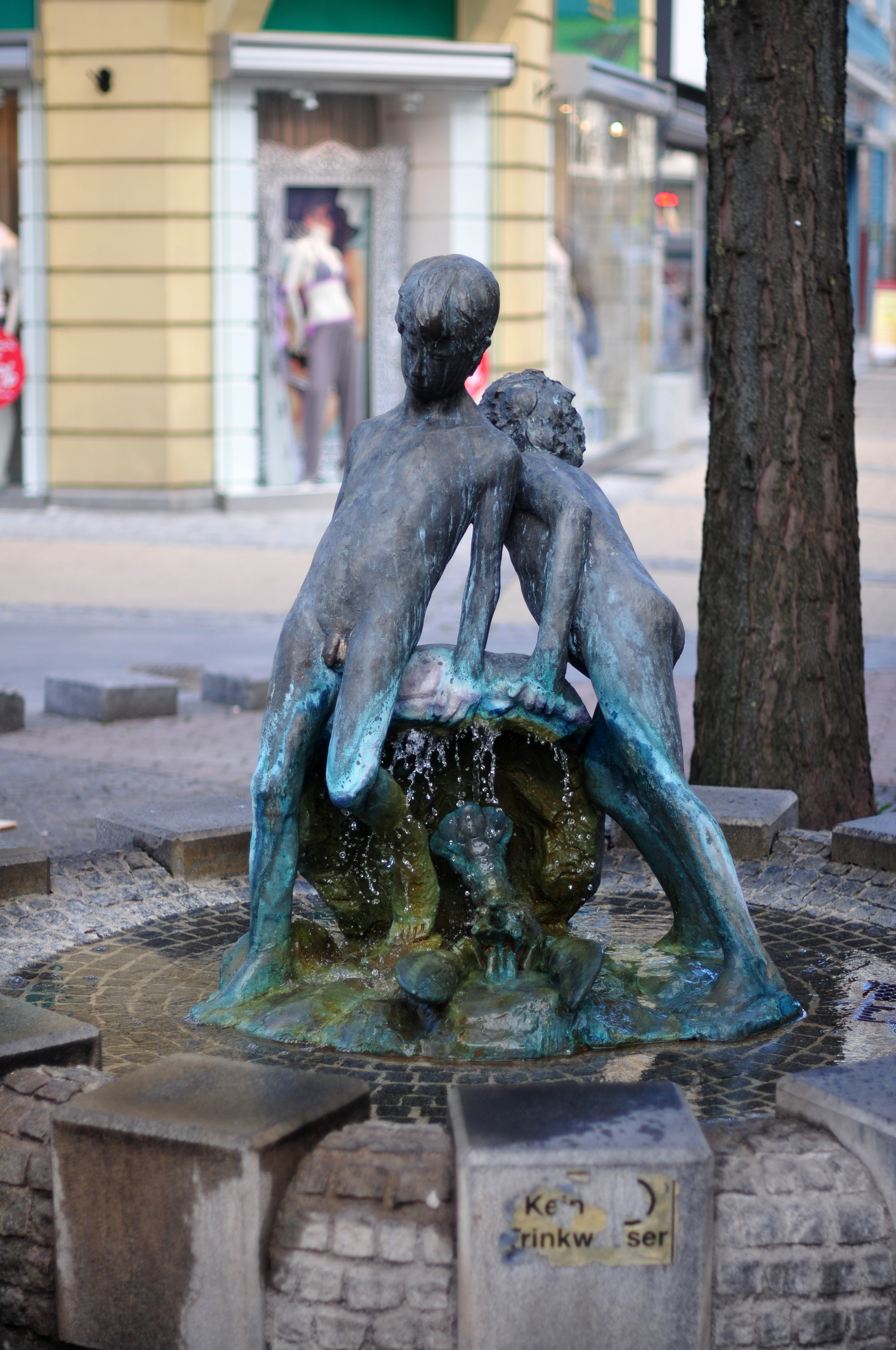 St. Pölten, Austria; Crayfish Fountain from Hans Freilinger Fotowanderung St. Pölten 13. April 2013 in St. Pölten, Niederösterreich 50mm • Allgemeines • Bahnhof • Domplatz • Fahrräder • Landhausviertel • Rathausplatz This file is used in a Wikiversity project or course. Please don't change it before you inform the author. hier ebenfalls